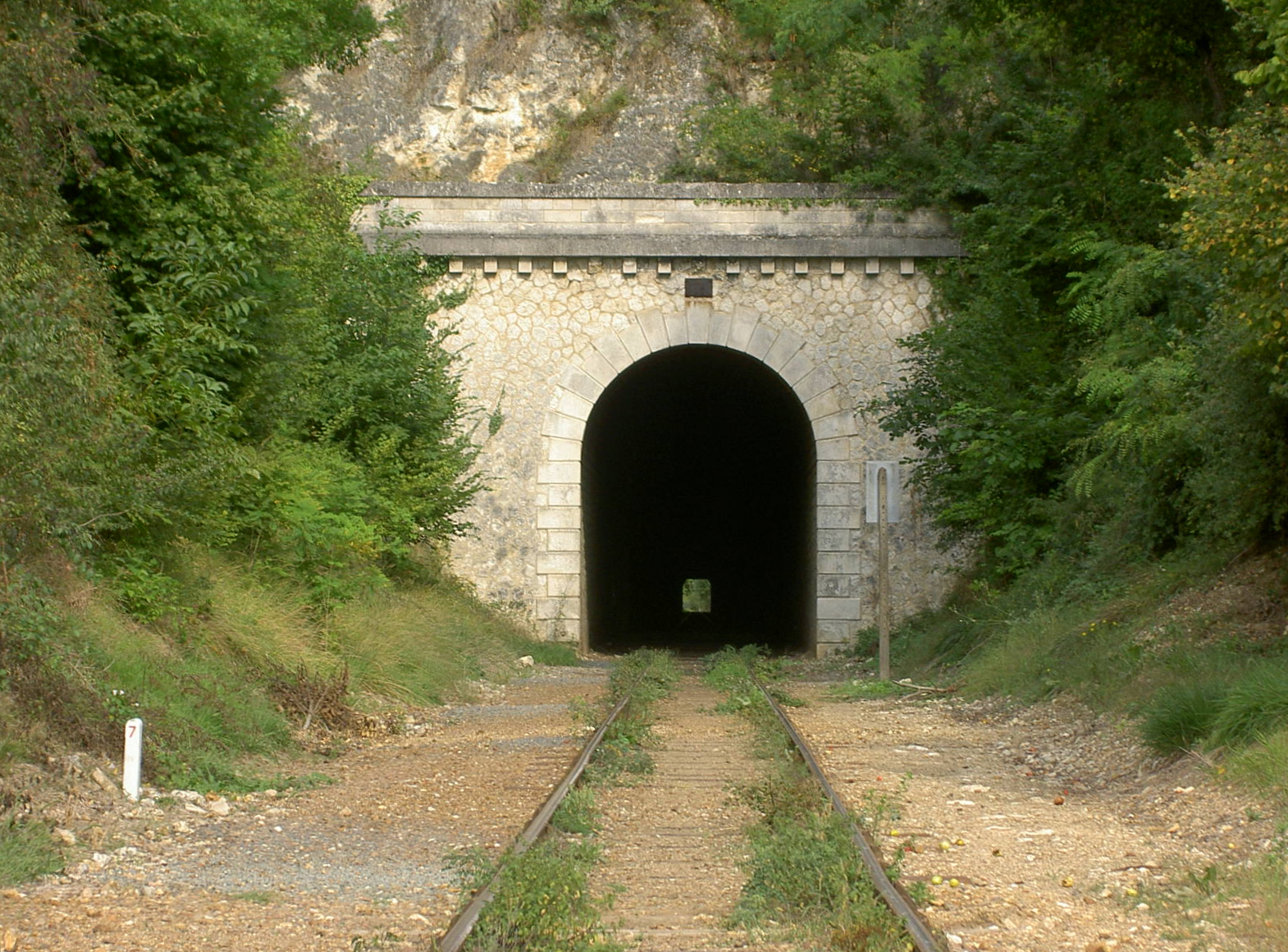 St-Rimay's tunnel entrance.